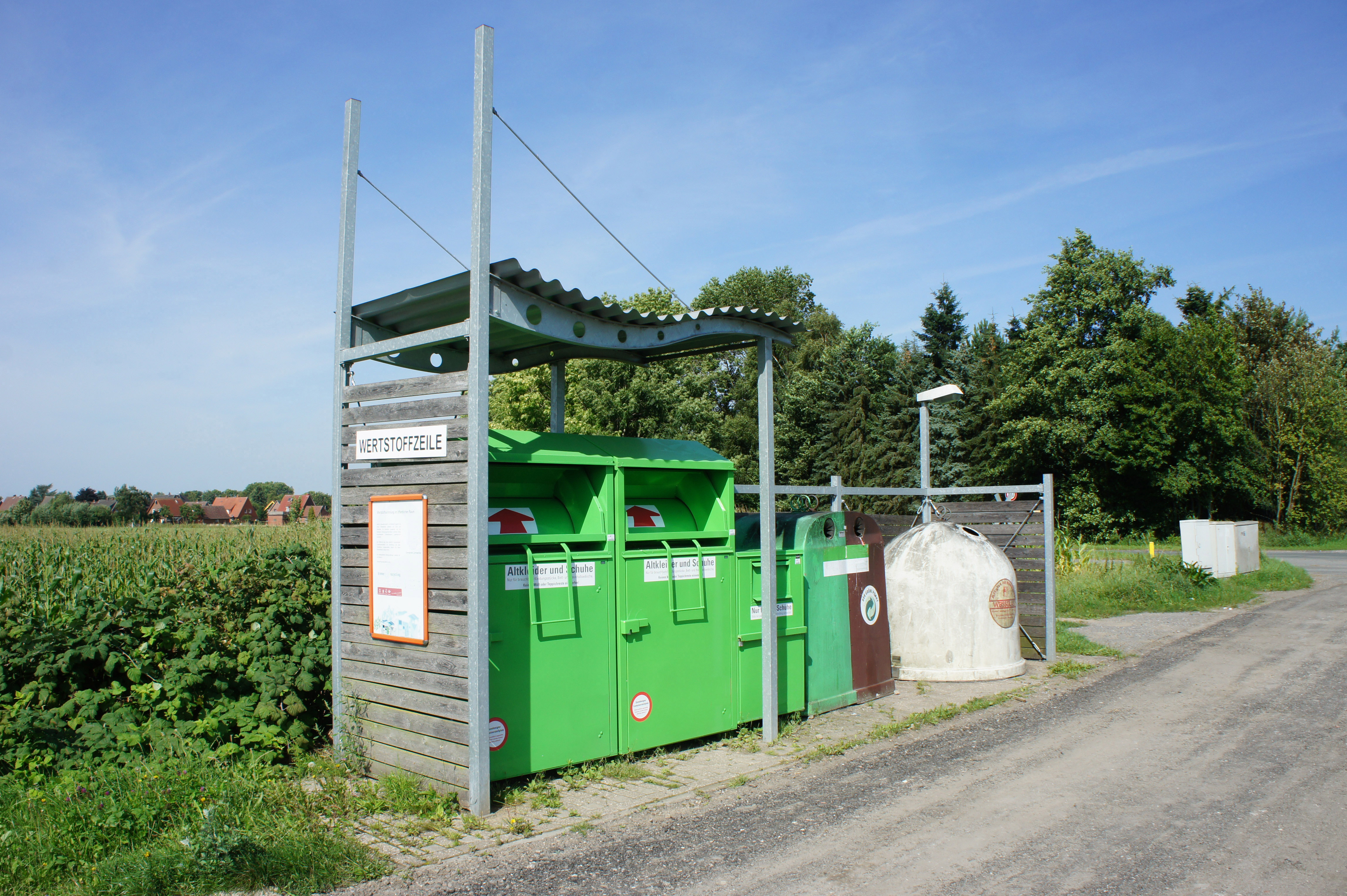 Recycling